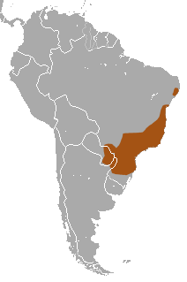 Big-eared Opossum (Didelphis aurita) range